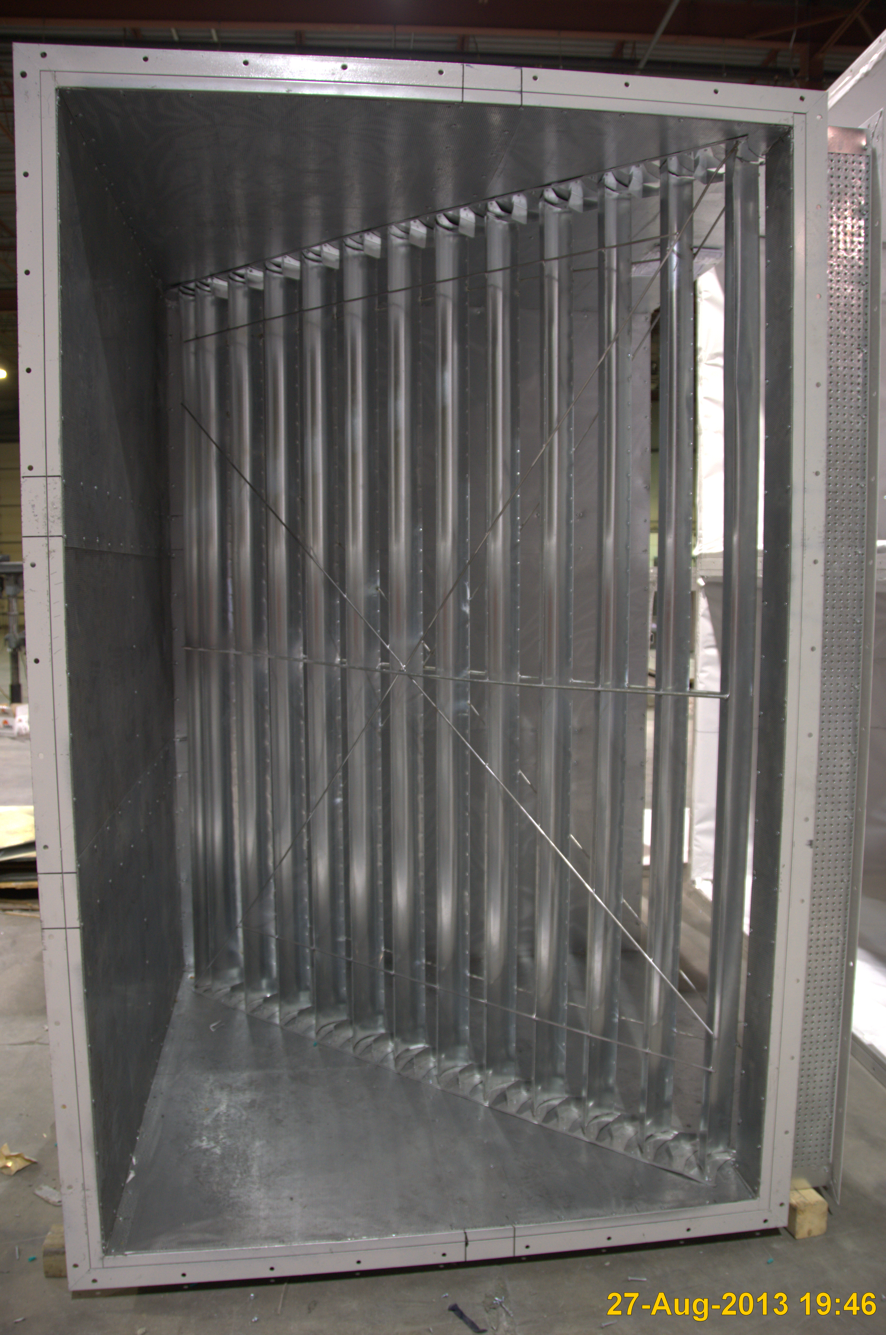 This is one of 6 pictures showing turning vanes inside of Durasteel fire-resistance-rated pressurisation ductwork.